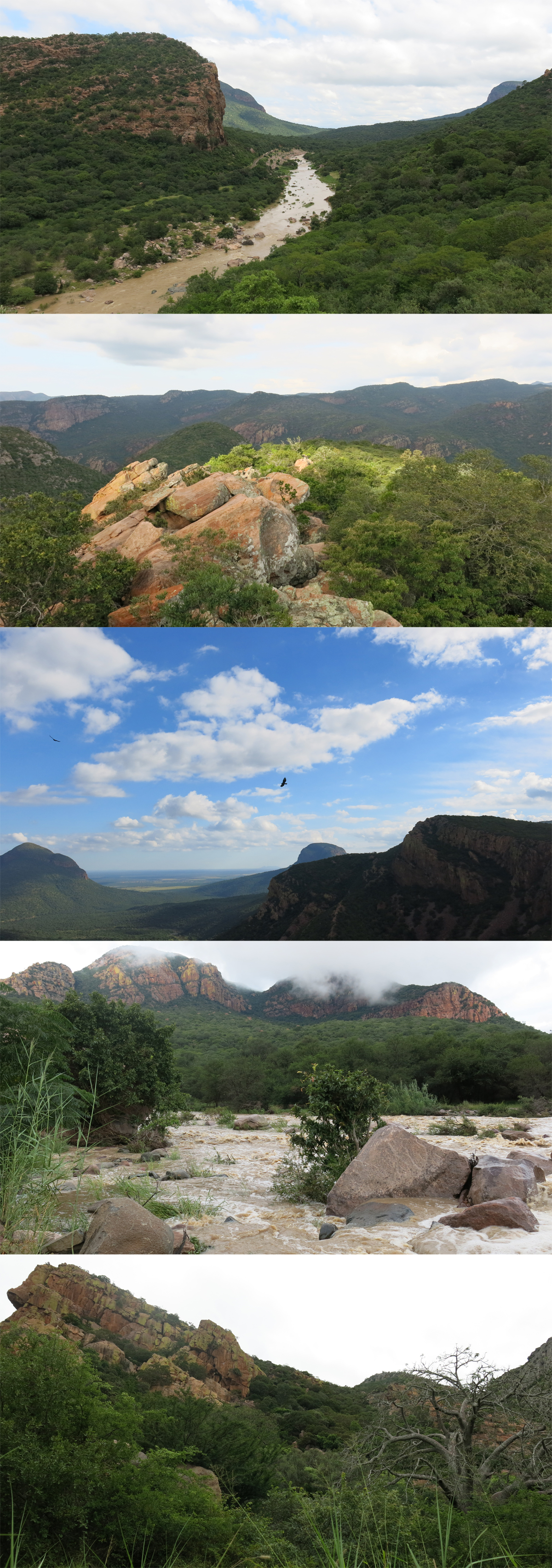 Composite image of landscapes from the Southern Soutpansberg